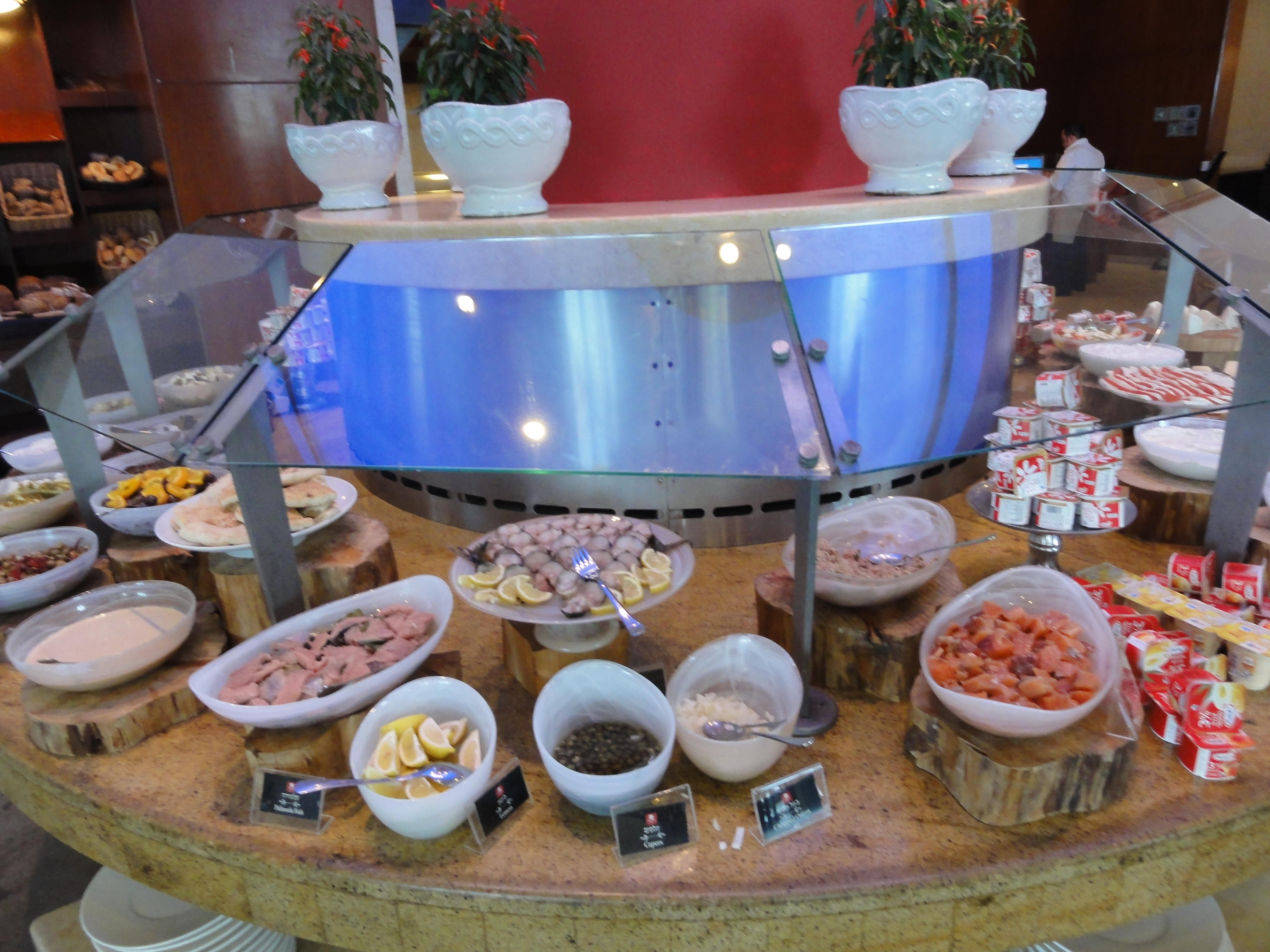 Part of the breakfast buffet at Leonardo hotel